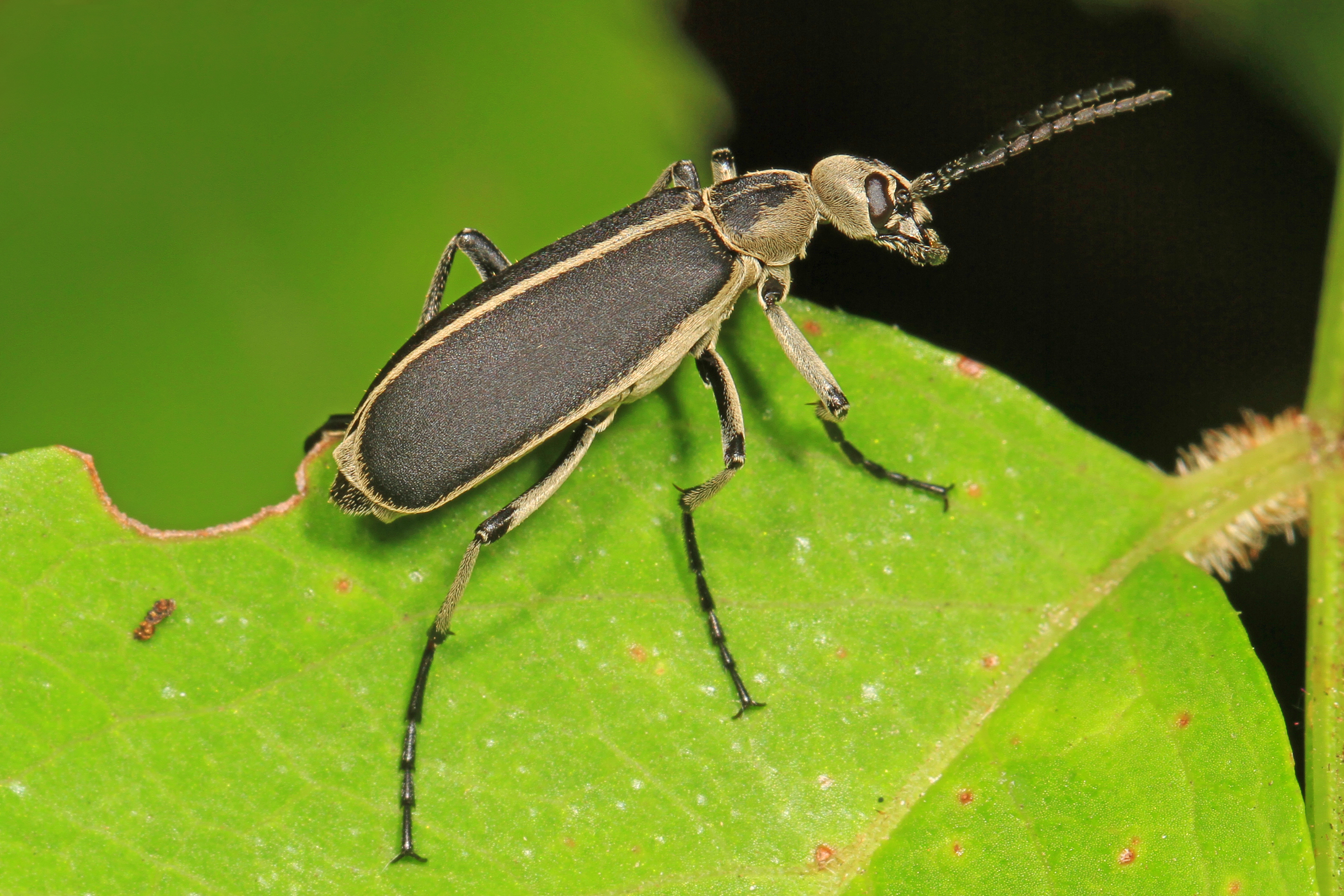 Margined Blister Beetle - Epicauta funebris, Meadowood Farm SRMA, Mason Neck, Virginia.